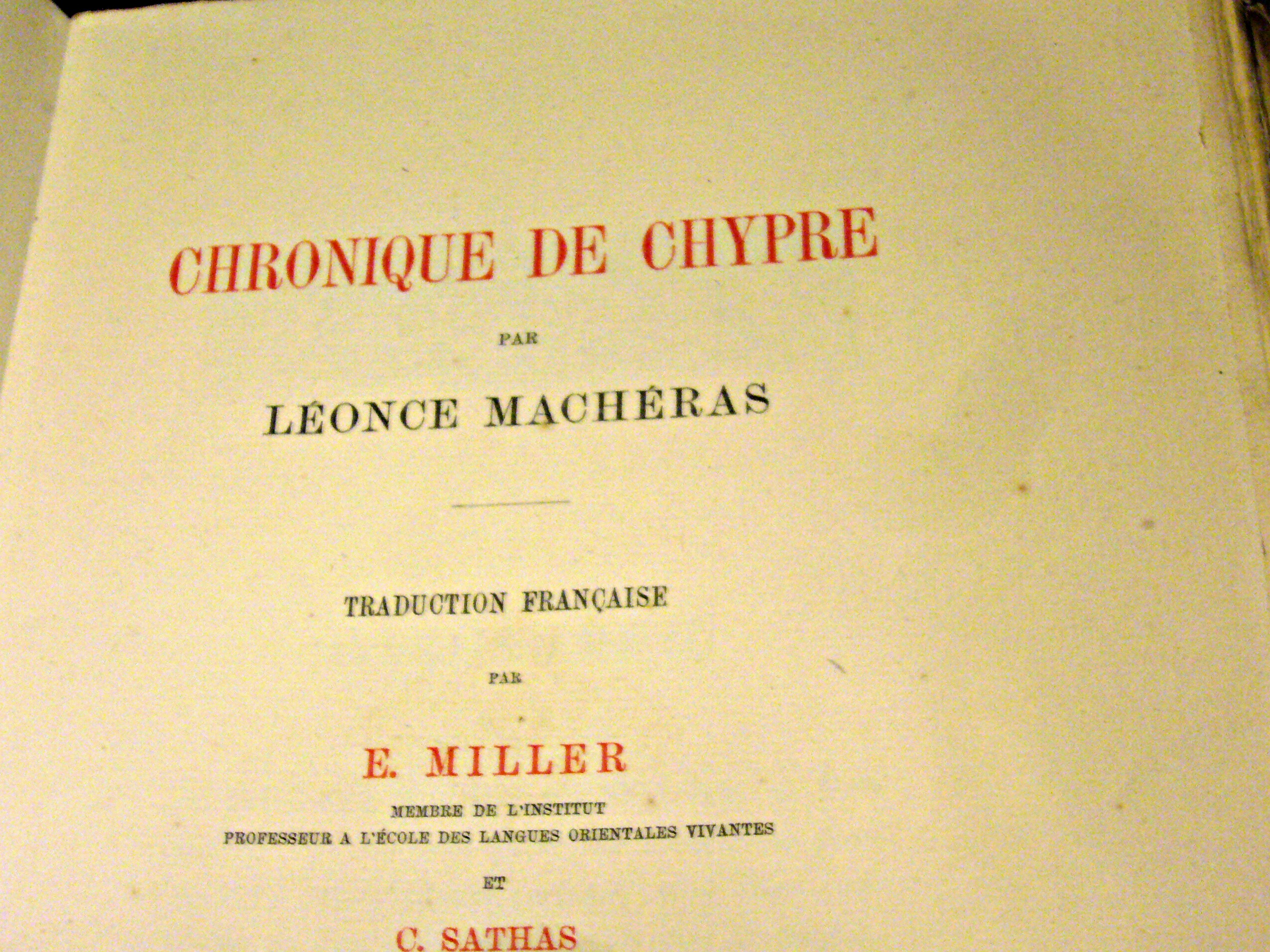 Leontios Machairas - Chronicles of Cyprus. Leventis Municipal Museum, Nicosia, Cyprus